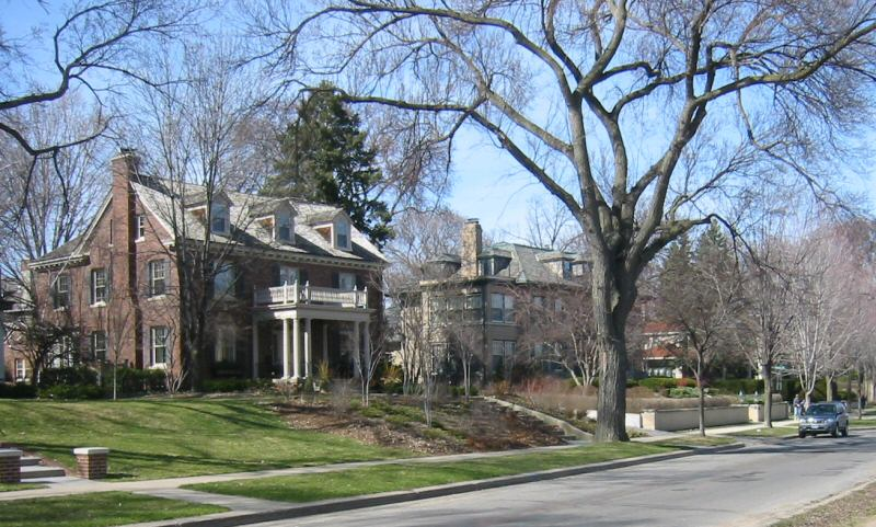 Picture of some stately homes along Lake of the Isles in Minneapolis.